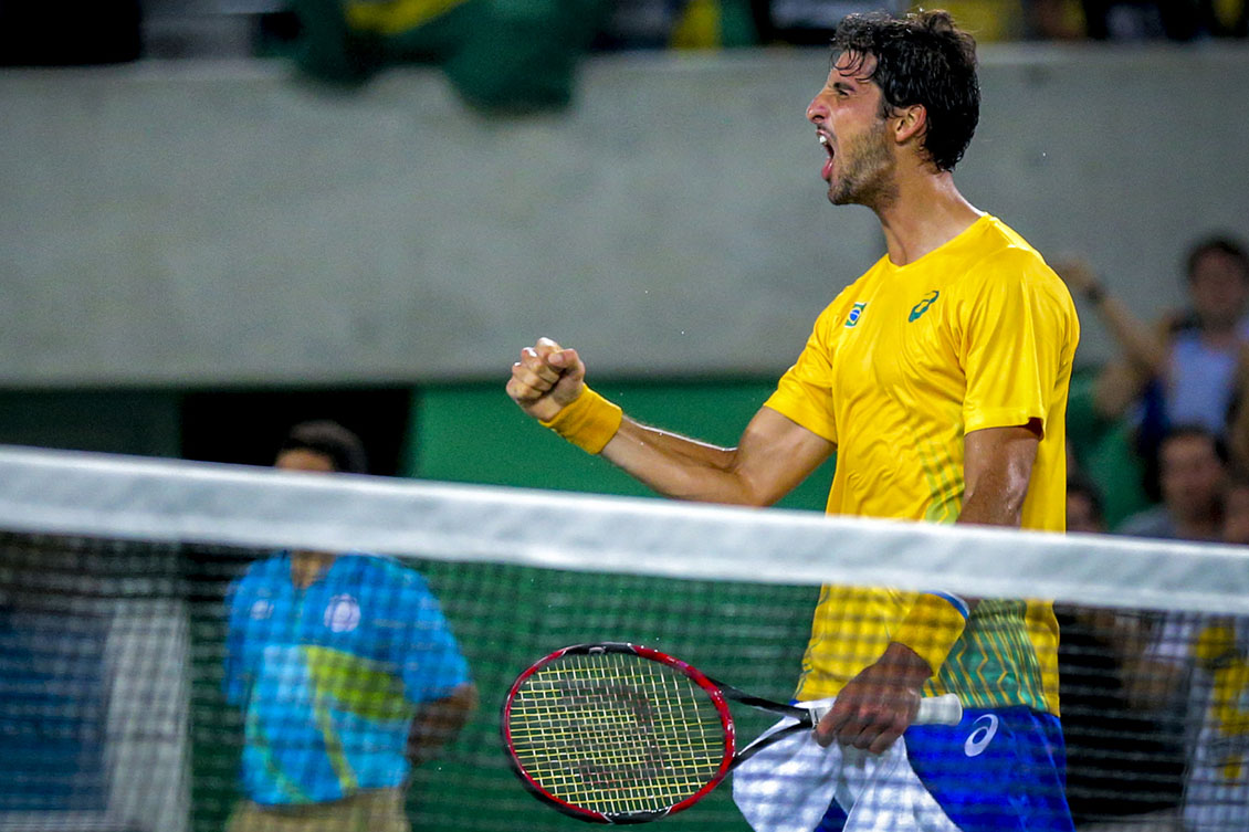 Tennis player Thomaz Bellucci from Brazil at the 2016 Summer Olympics